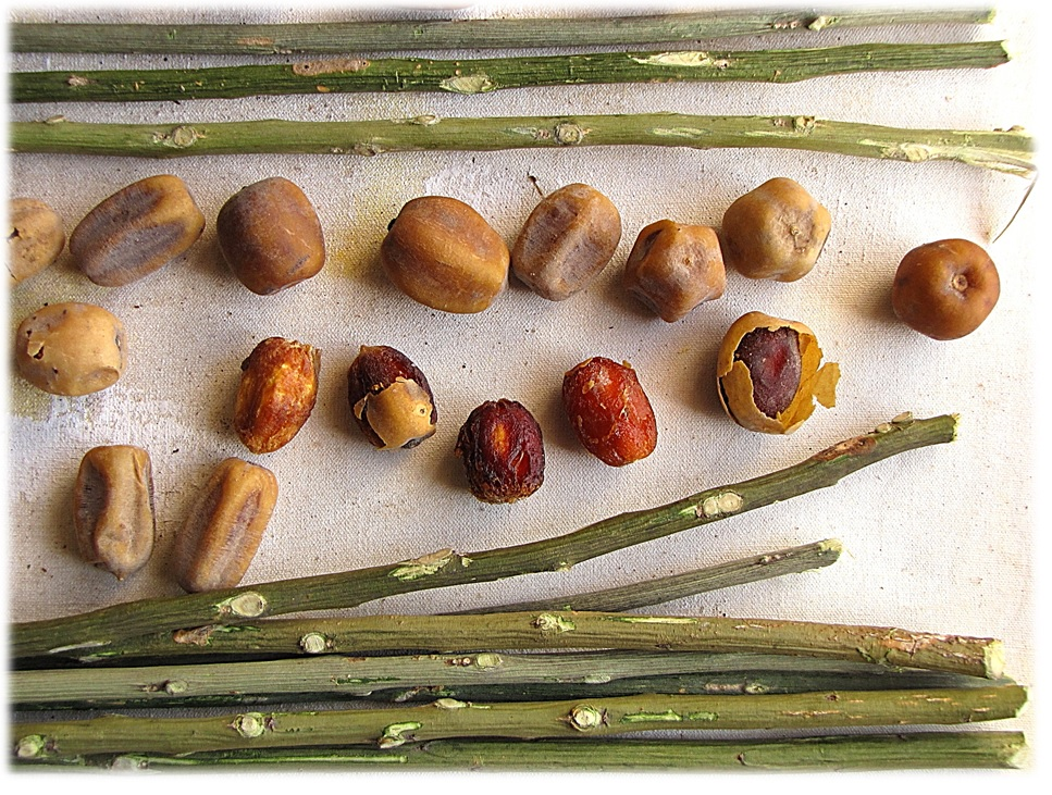 Detail of sticks from one of several types of trees used for African toothbrushes; side by side with detail of its small fruit (fruit shown here about 1 inch/approximately 2.5 cm in length); seeds shown whole and with the outer skin peeled away to expose the reddish inner pulp that covers the hard seeds.